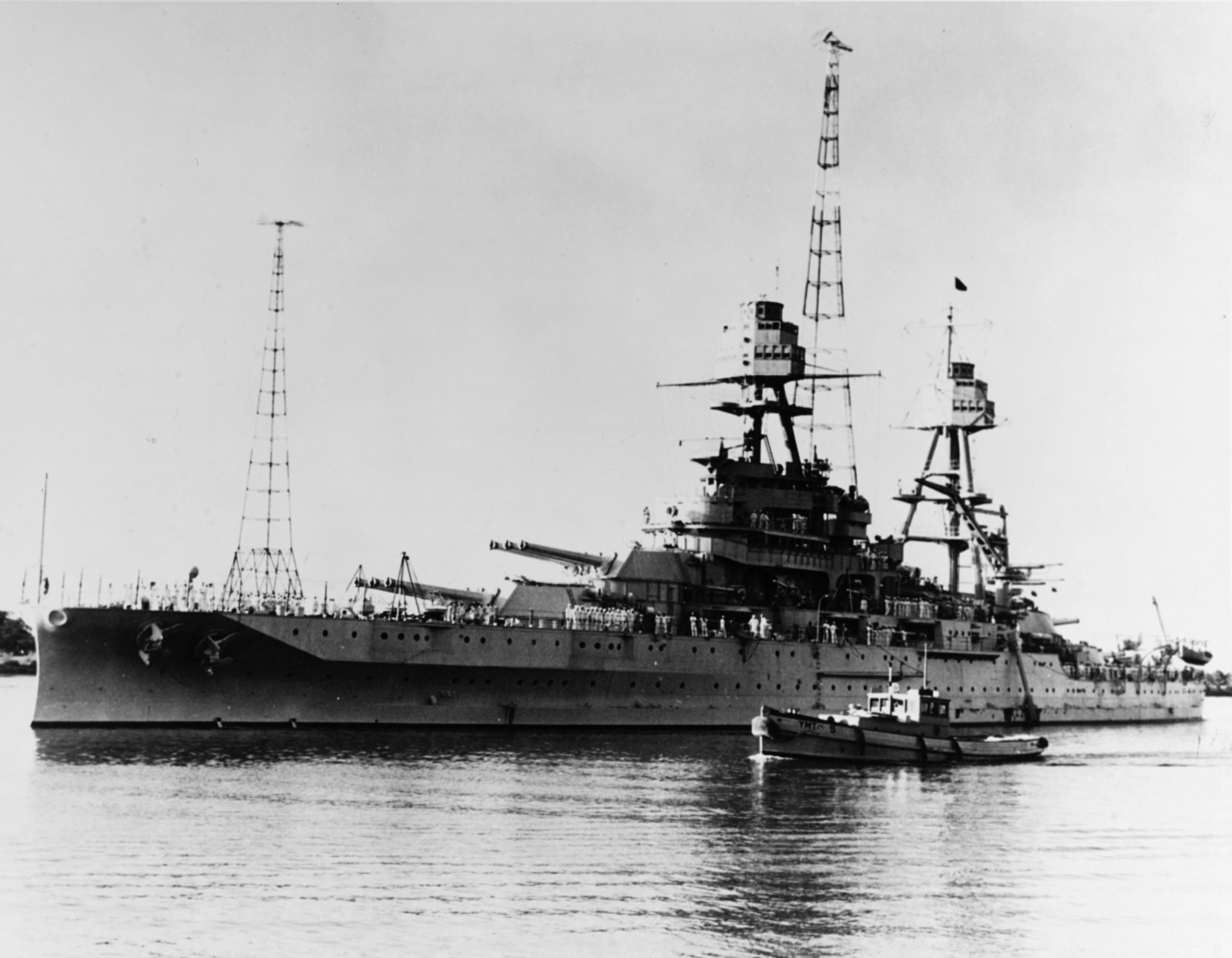 The United States battleship USS Pennsylvania (BB-38), flagship, U.S. fleet, Admiral Frank Schofield, at Pearl Harbor, 3 February 1932.